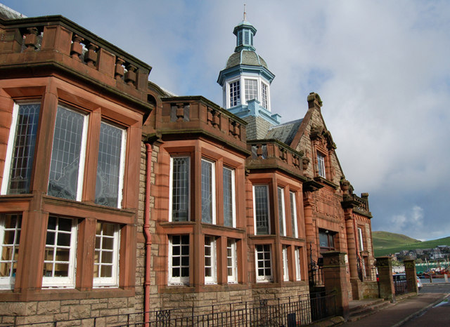 The old Library and Museum, Campbeltown Built in 1898, the library moved to the modernist, some would say brutalist, "Aqualibrium" (combined library and swimming pool) in 2006.